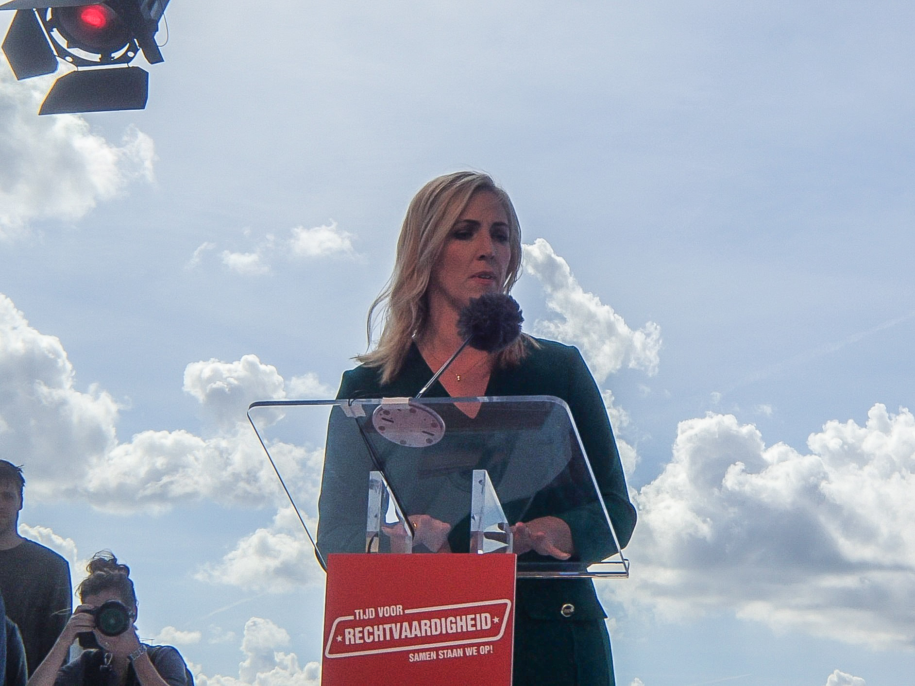 Lilian Marijnissen behind the microfoon